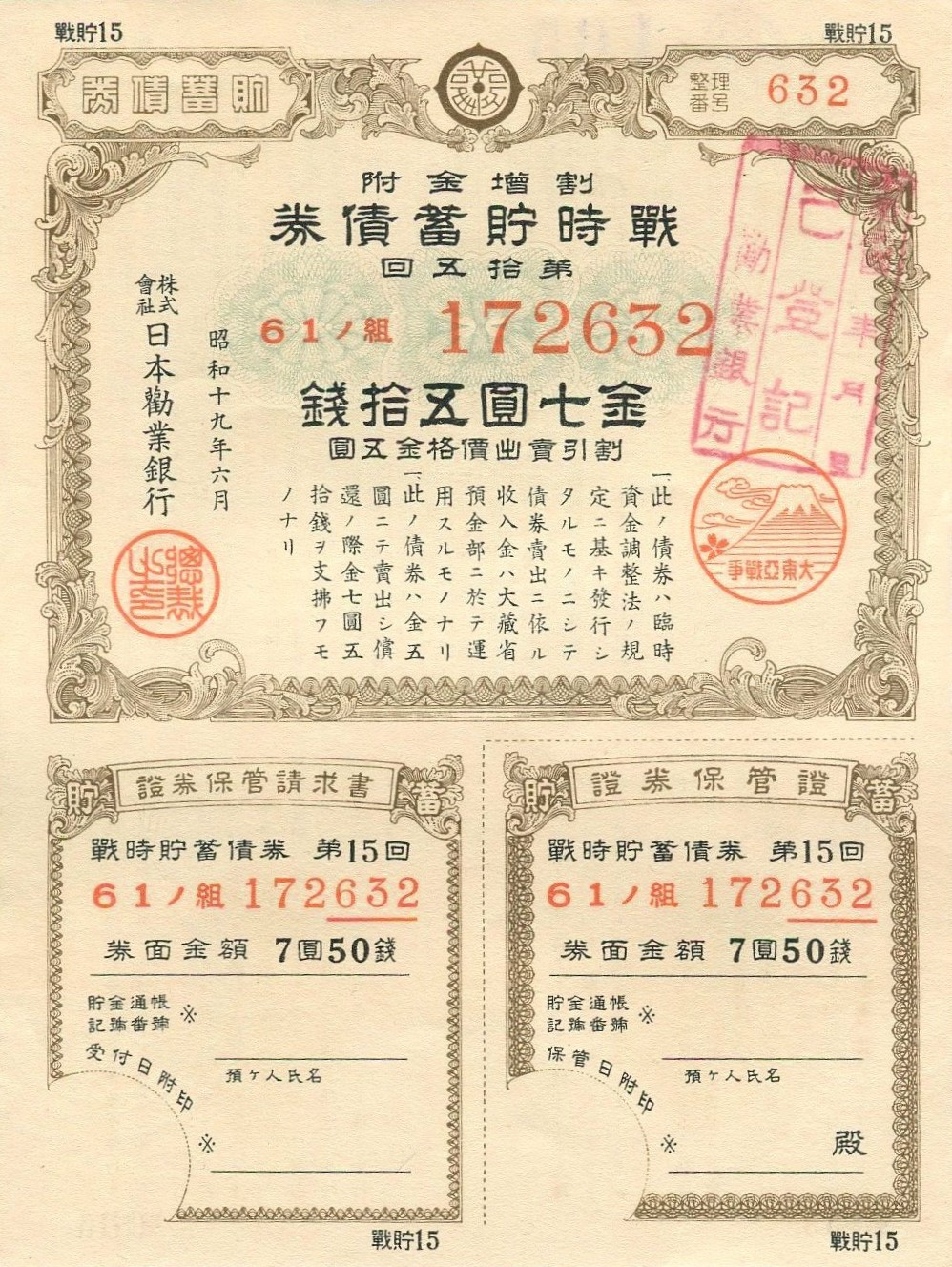 Wartime saving bonds by Nippon Kangyo Bank during second Sino-Japanese War and WWII.